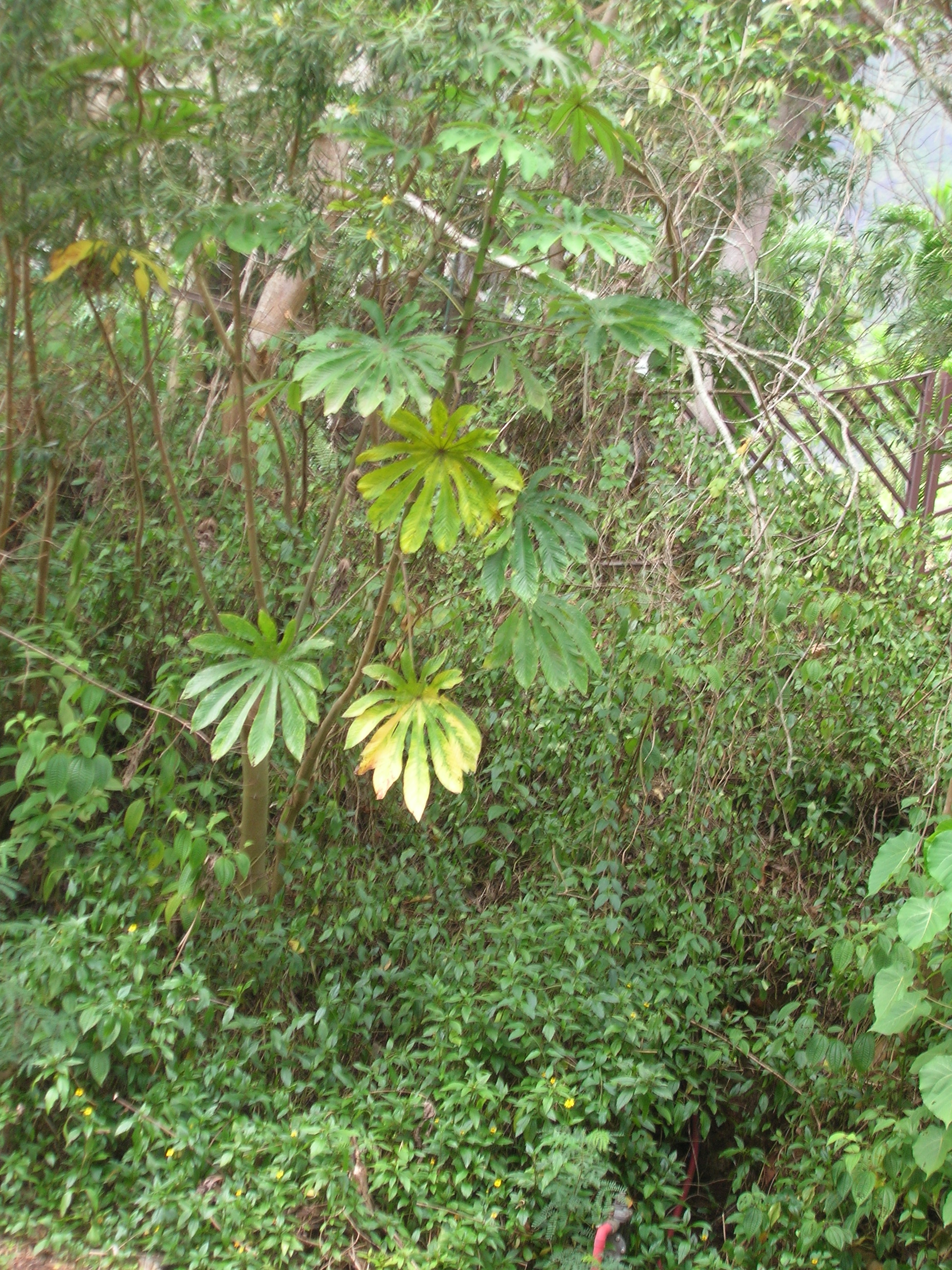 Cecropia obtusifolia (habit). Location: Oahu, Nuuanu